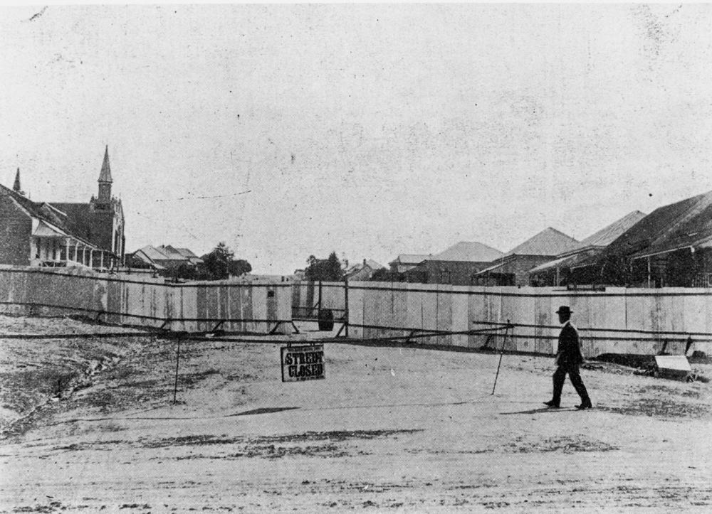 Quarantine barricade around houses in Hawthorne Street, Woolloongabba, Brisbane, Queensland, 1900. Quarantine barricade around houses in Hawthorne Street, Woolloongabba, Brisbane, Queensland. The first case of the bubonic plague occured on the 27 April, 1900. The origin of the outbreak in Queensland was traced to an infection carried by rats arriving in Queensland ports aboard vessels from Sydney, at a time when the plague was known to exist there. The infection spread to local rats then to humans. [Information taken from Report on Plague in Queensland, 1900-1907 by B. Burnett Ham, Brisbane, 1907.].